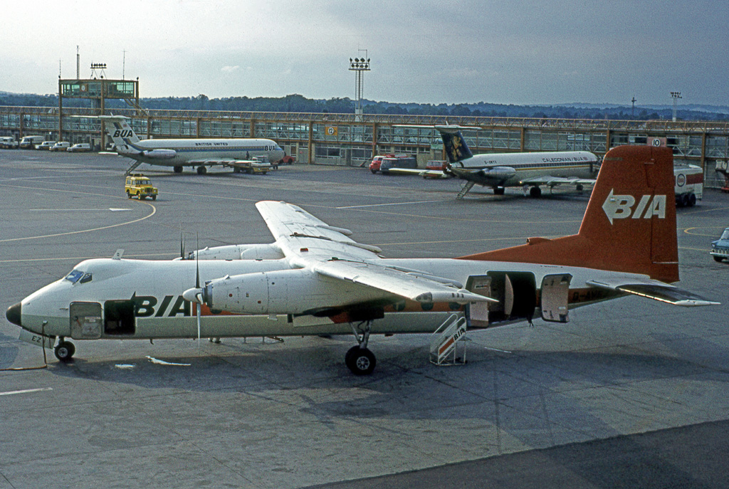 Handley Page Herald 210 G-AVEZ of British Island Airways at London Gatwick in 1971